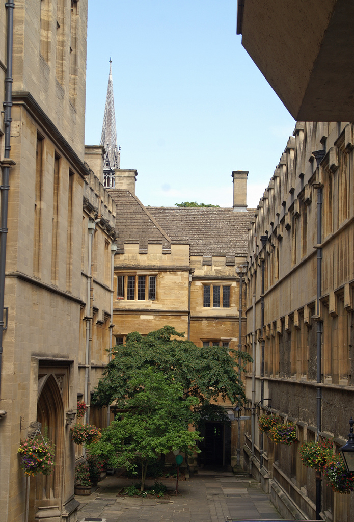 The third quadrangle of Jesus College, Oxford; the spire in the distance is the chapel of Exeter College.